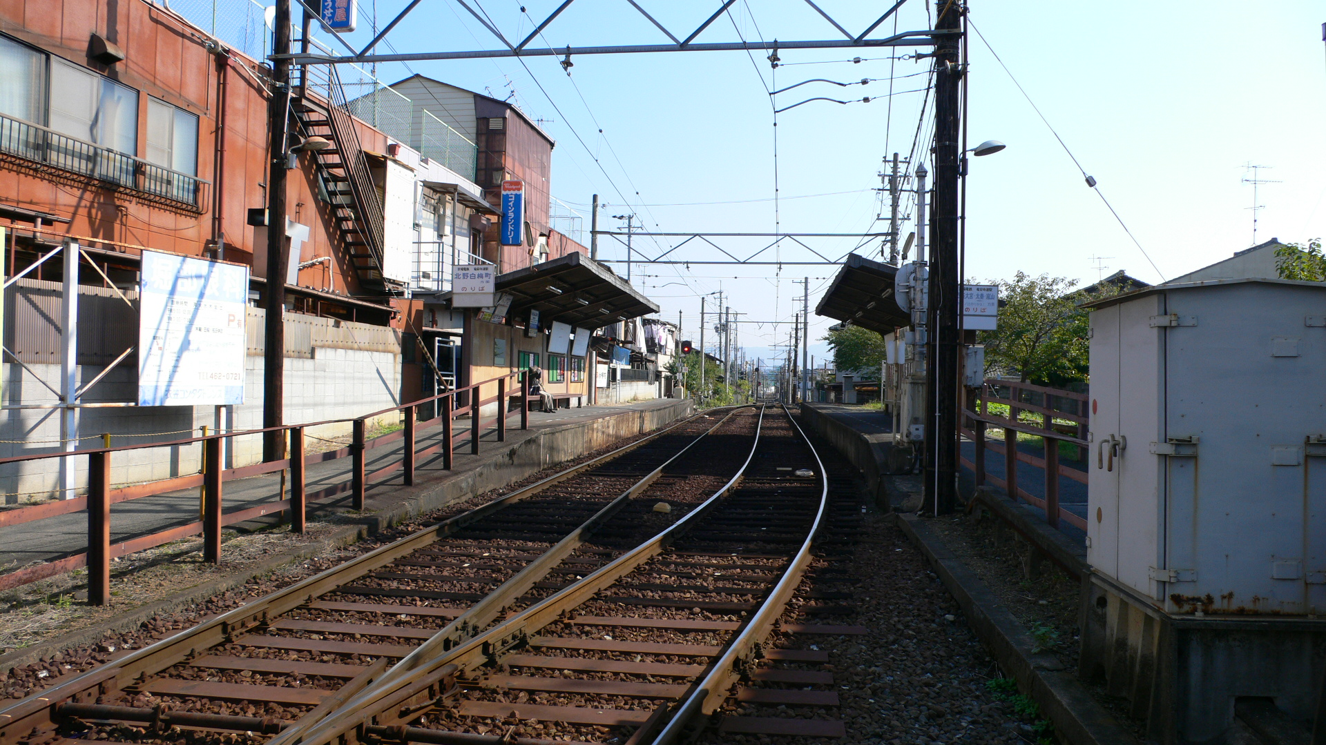 RyoanJi-Michi-Station(竜安寺道駅) of Keifuku Electric Railroad Kitano Line(京福電気鉄道北野線)